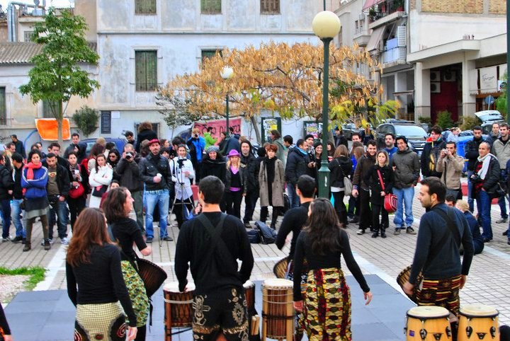 Lunch Street Party and MET/Action Festival in Avdi Square in the Metaxourgeio neighborhood of Athens, Greece.